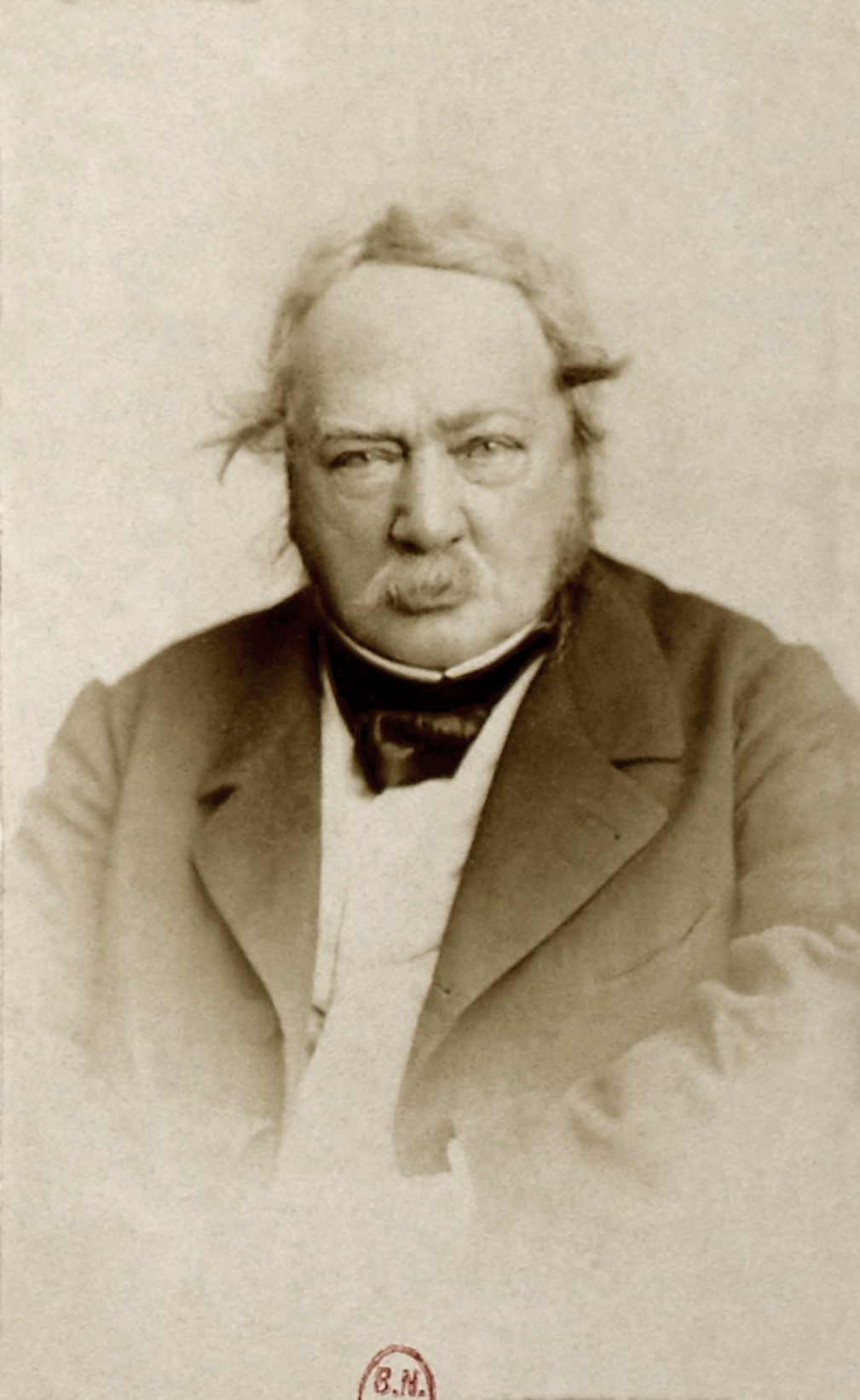 Paul de Kock (1793 - 1871), french novellist, playwright and librettist.